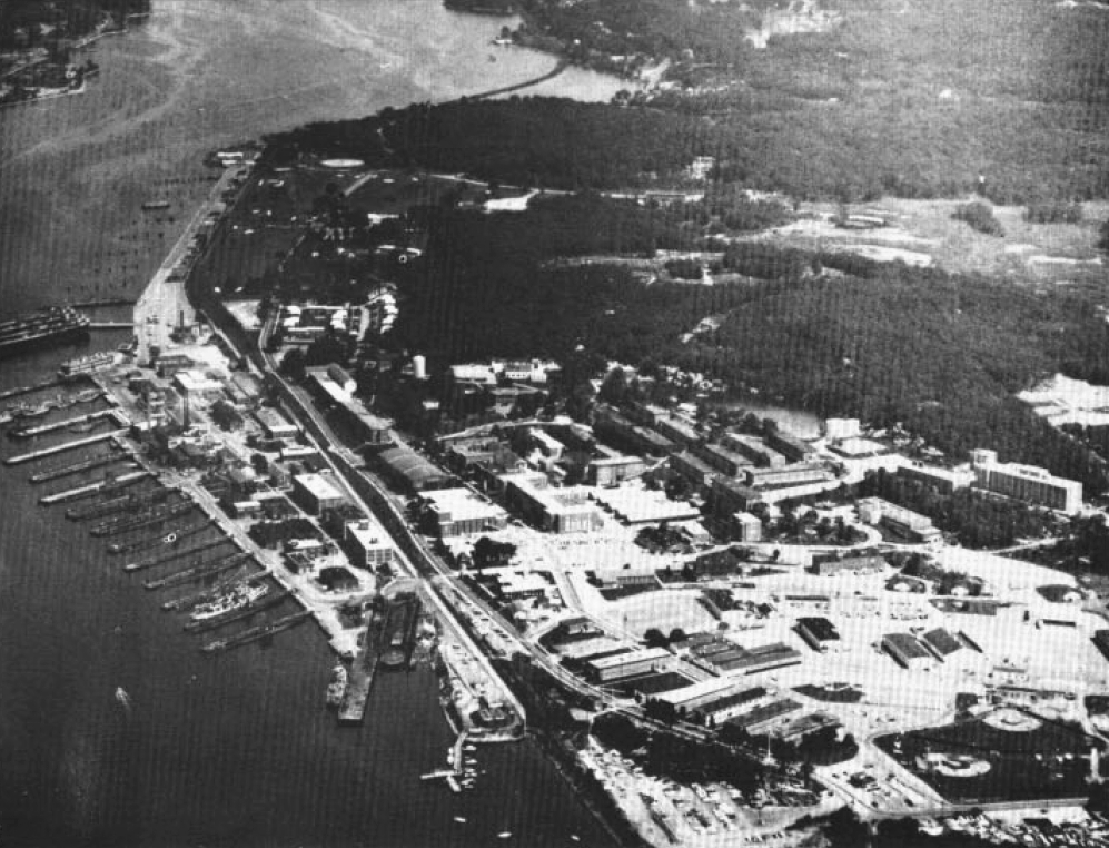 Aerial view of the U.S. Naval Submarine Base New London, Connecticut (USA), circa 1968.